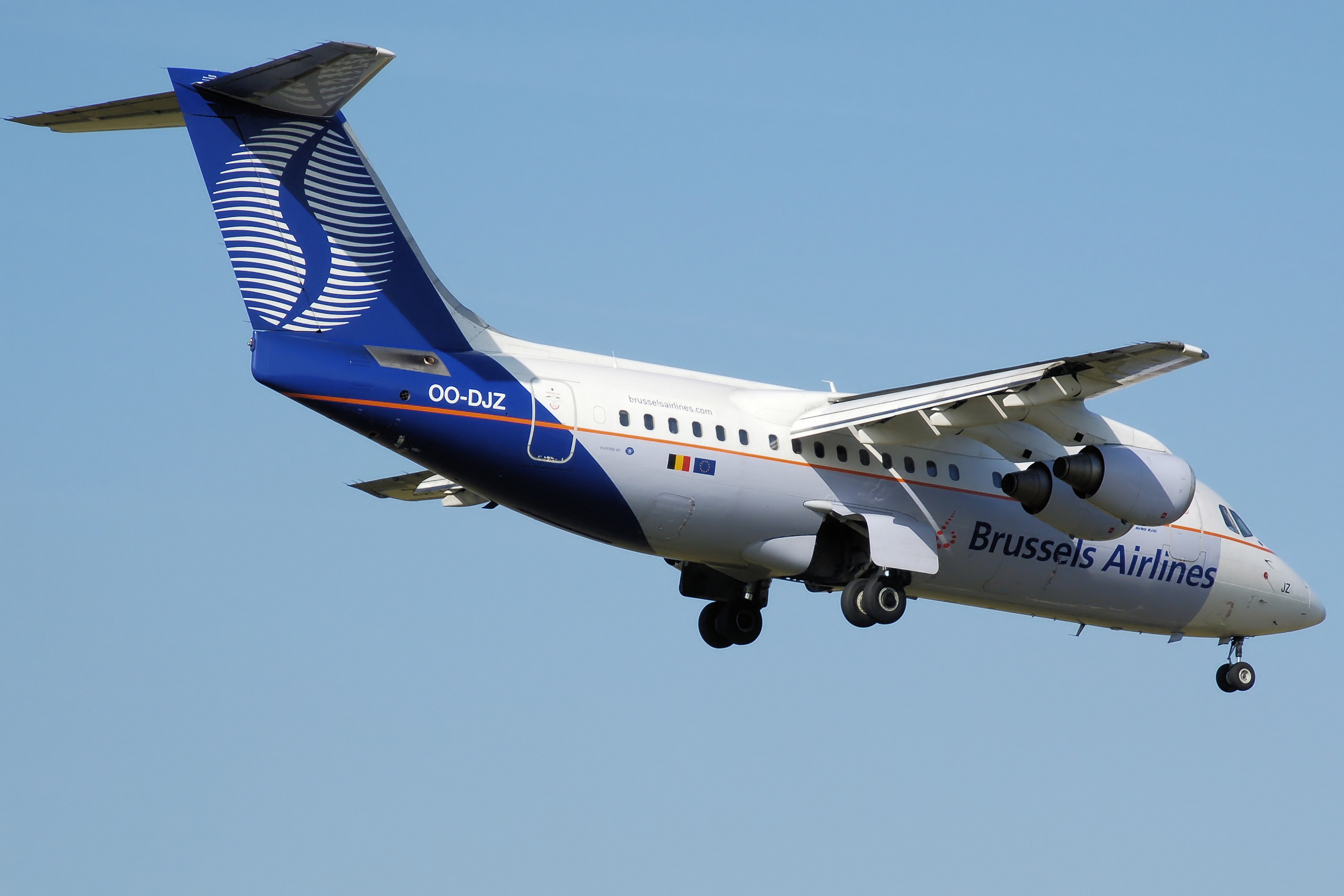 Brussels Airlines Avro RJ85 (OO-DJZ) landing at Birmingham International Airport, Birmingham, England.